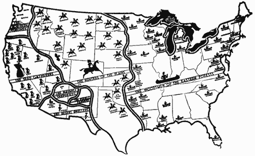 A portion of Clark Wissler's map of the culture areas of the Native American United States.